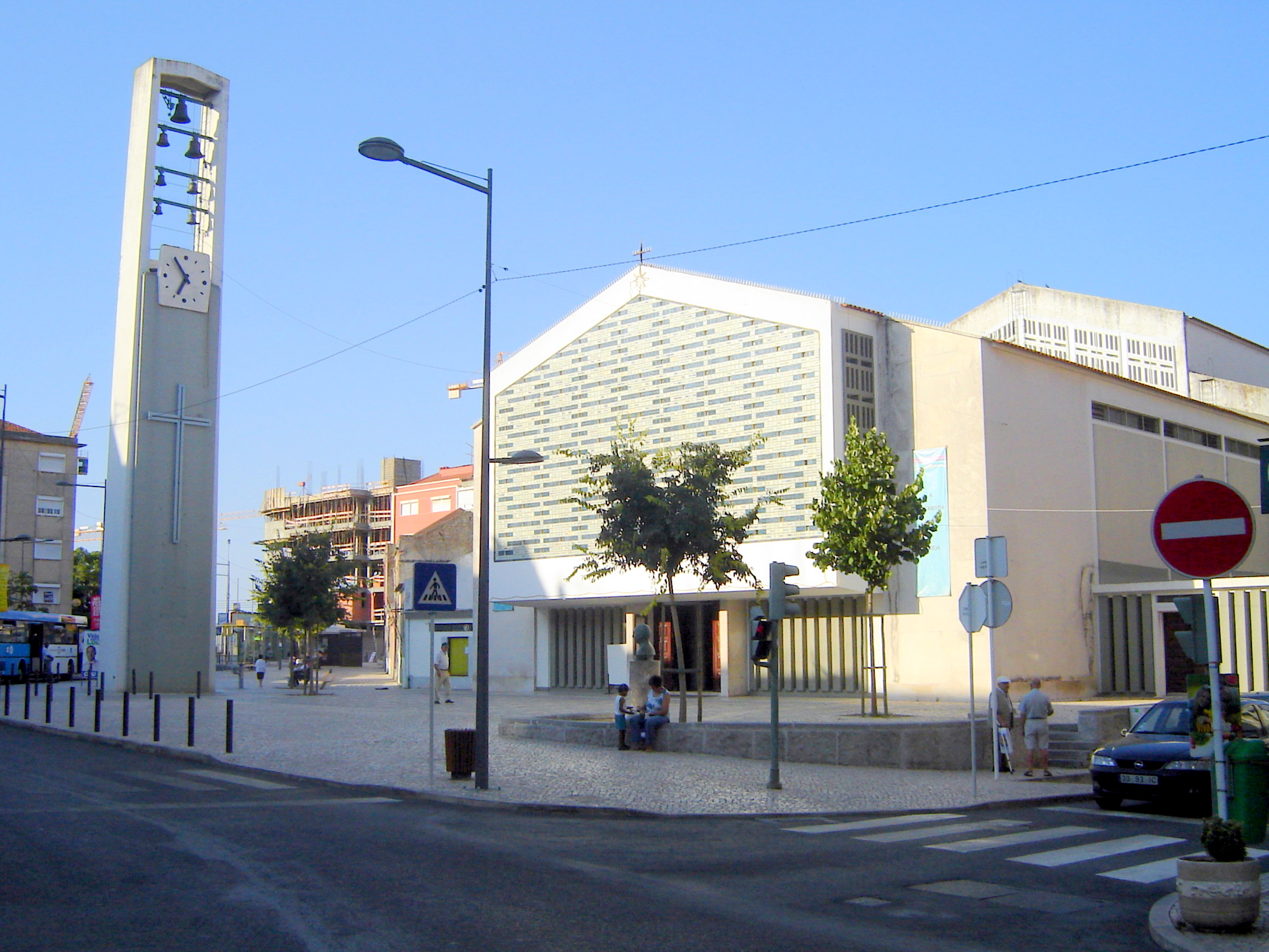 View to the Moscavide church, situated in Portugal